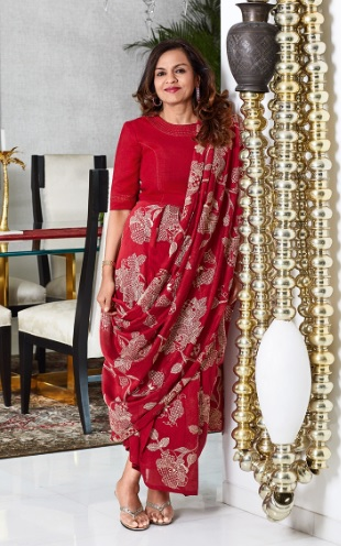 Chairperson - JSW Foundation